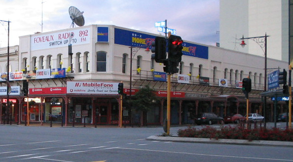 The Foveaux FM building in 2005 when Foveaux became More FM.